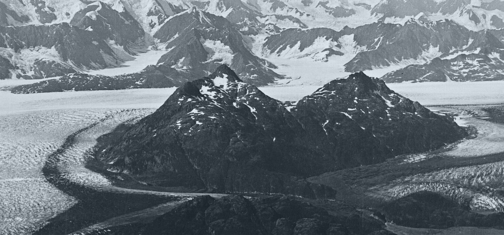 Great Nunatak surrounded by Columbia Glacier, aerial view in 1934.